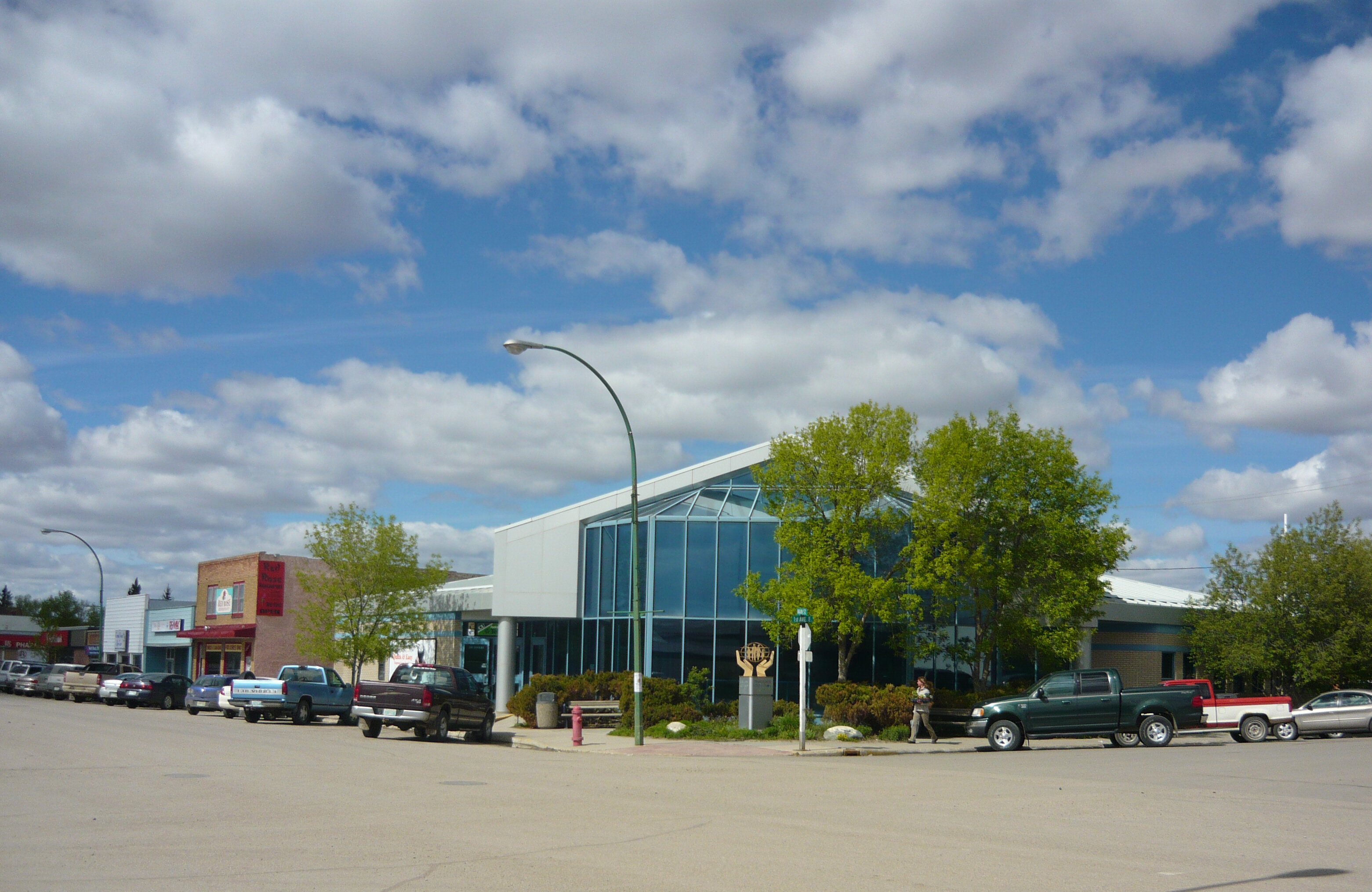 Business district of Rosetown, Saskatchewan, Canada. The building in the foreground, on the corner, is Prairie Central Credit Union (200 Main Street). The street to the left is Main Street and the street to the right is 1st Avenue East.